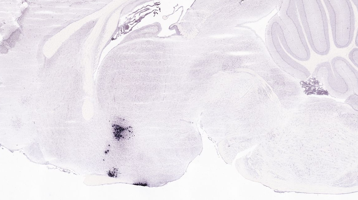 An ISH image taken in the sagittal plane of high AVP gene expression in the periventricular region of the hypothalamus of the adult mouse.